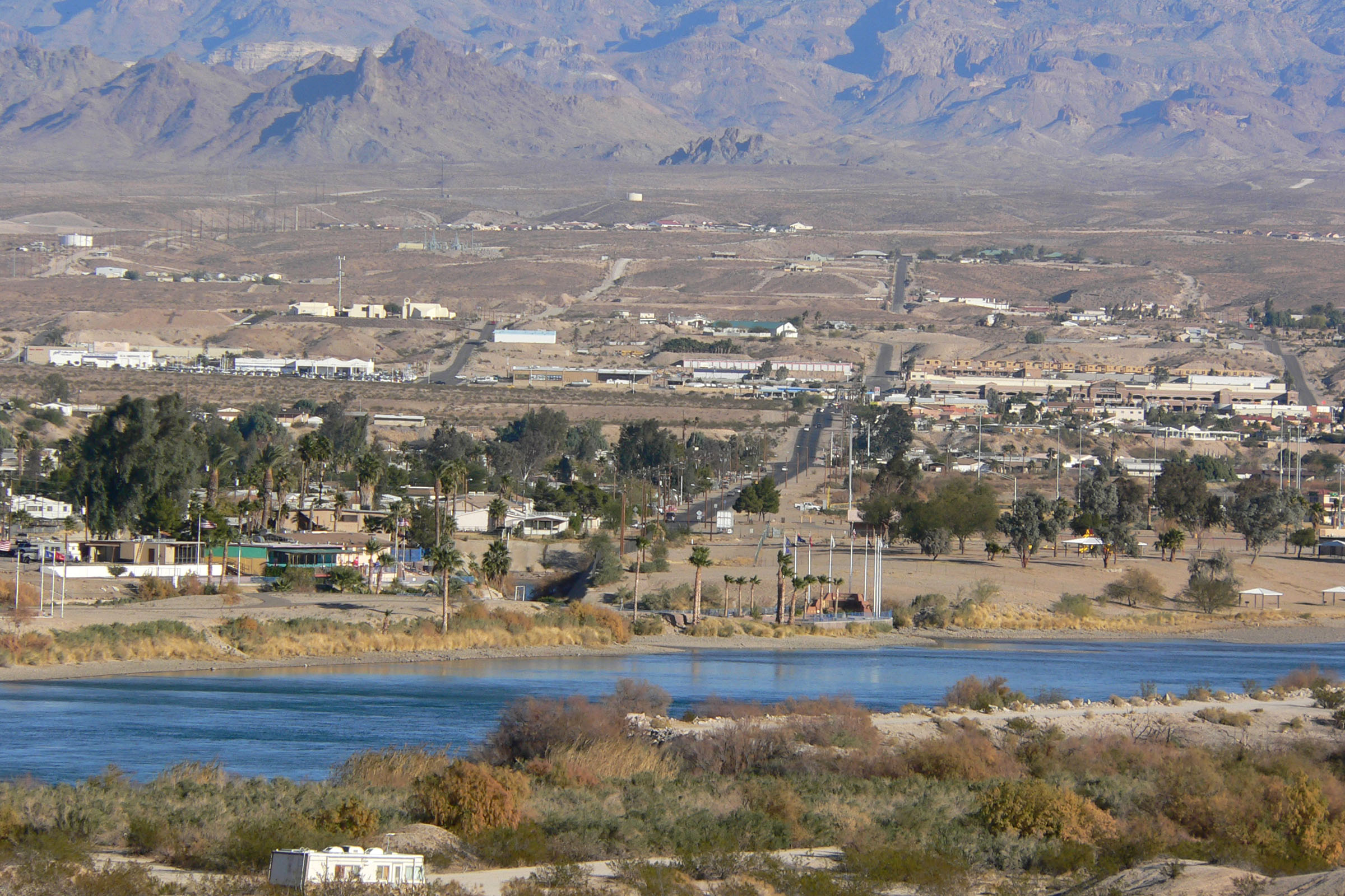 Bullhead City, Arizona seen from Nevada side of river